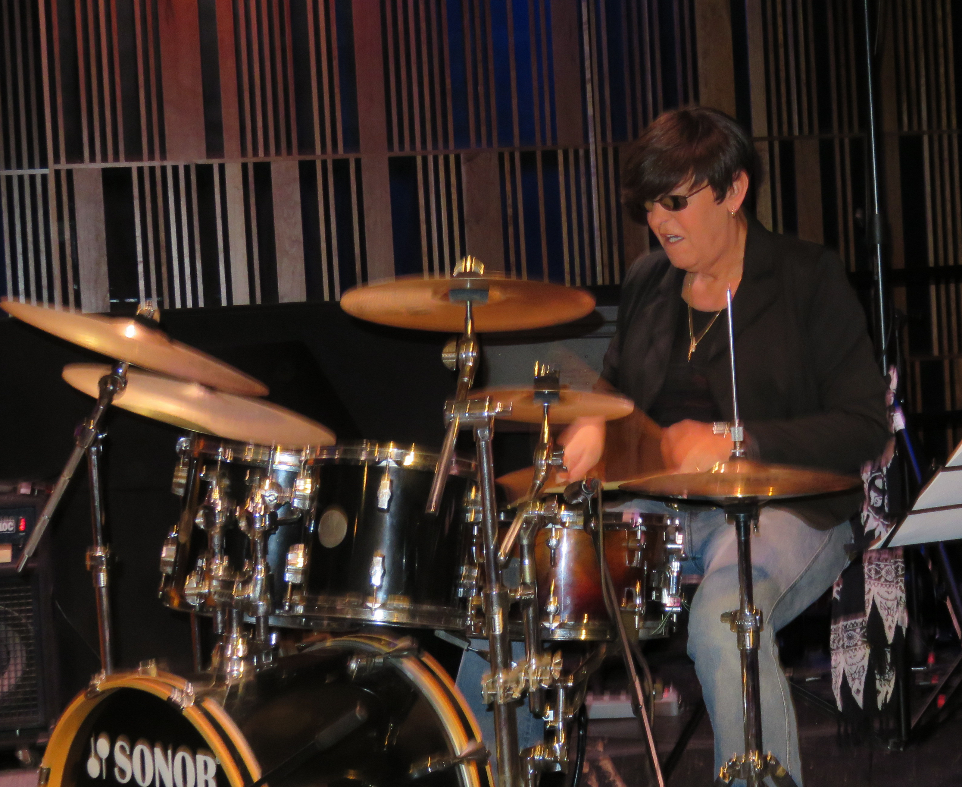 Billie Davies during a live performance at Music At The Mint 01/31/2018